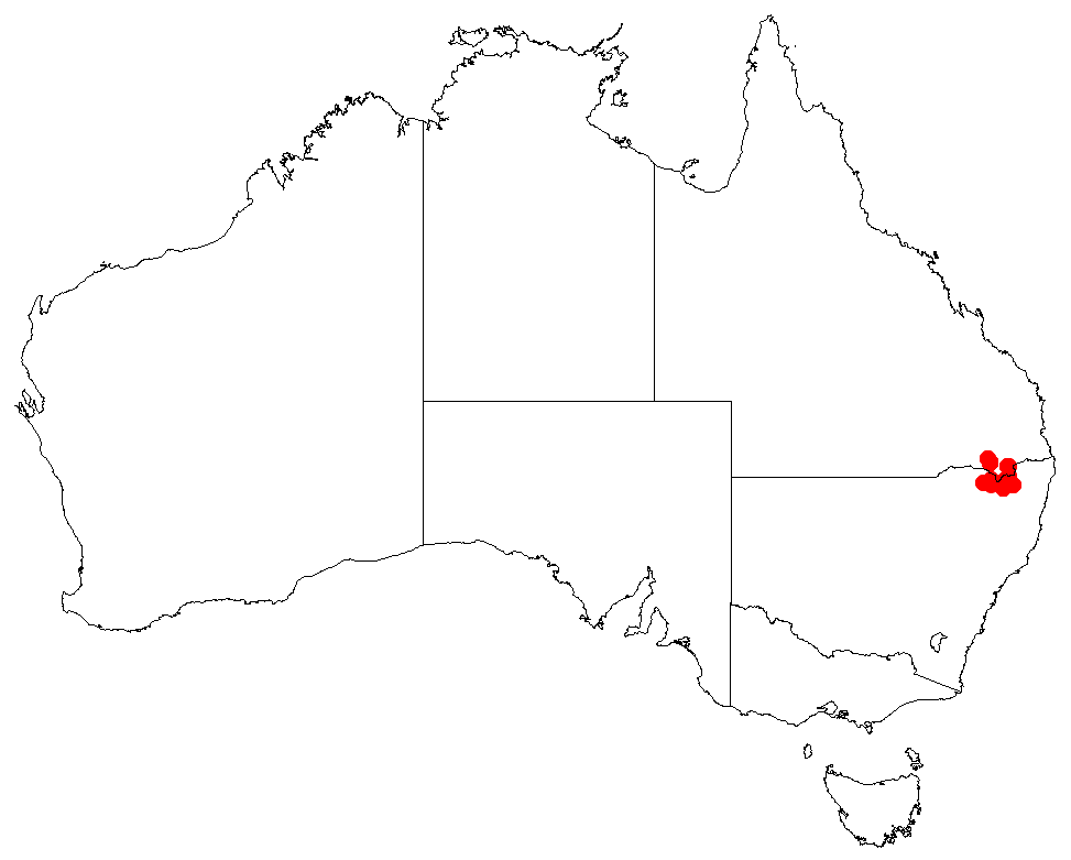 Macrozamia plurinervia occurrence data downloaded from Australasian Virtual Herbarium using